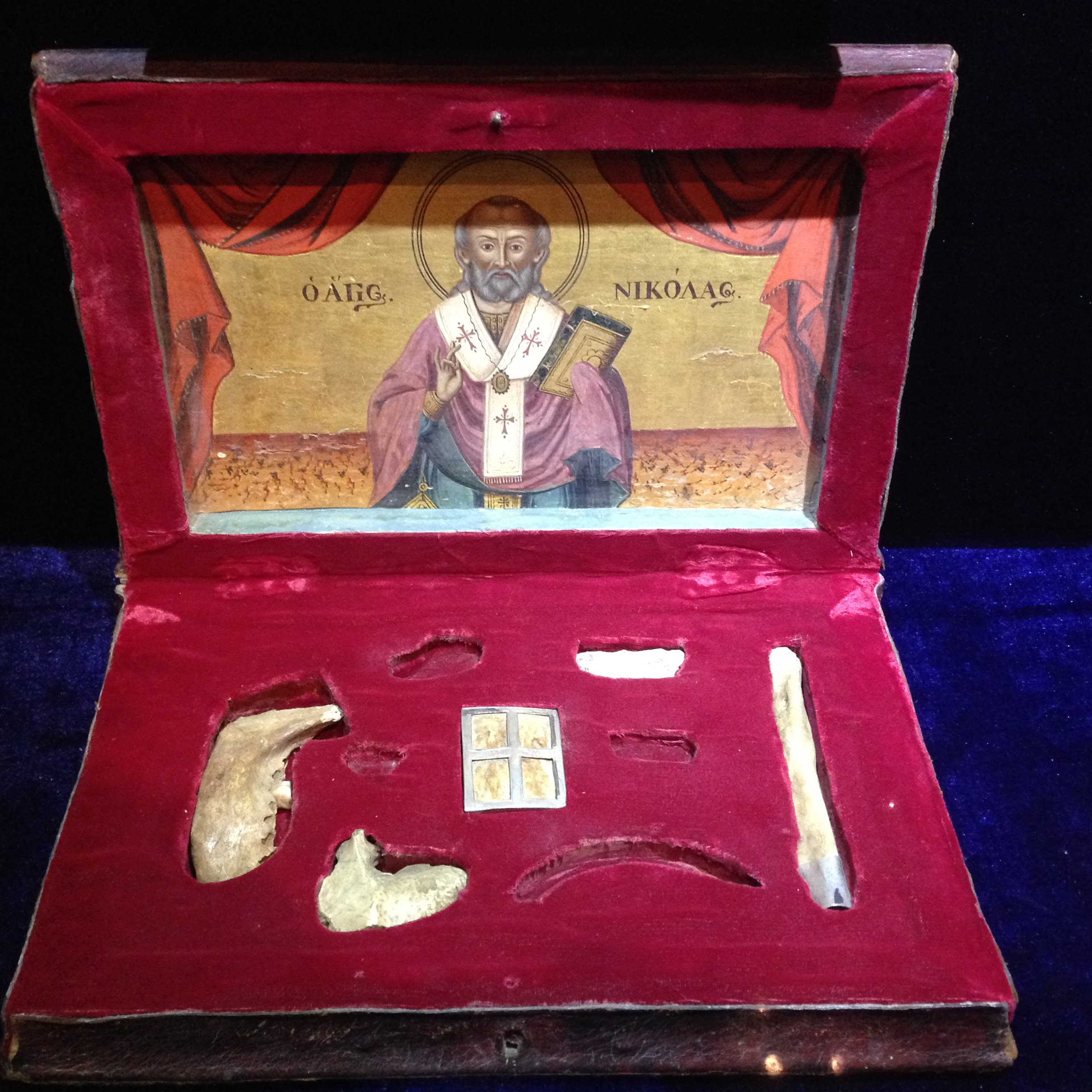 Sacred bone relics of Saint Nicholas, Antalya